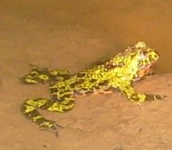 Bombina orientalis in a rice paddy.